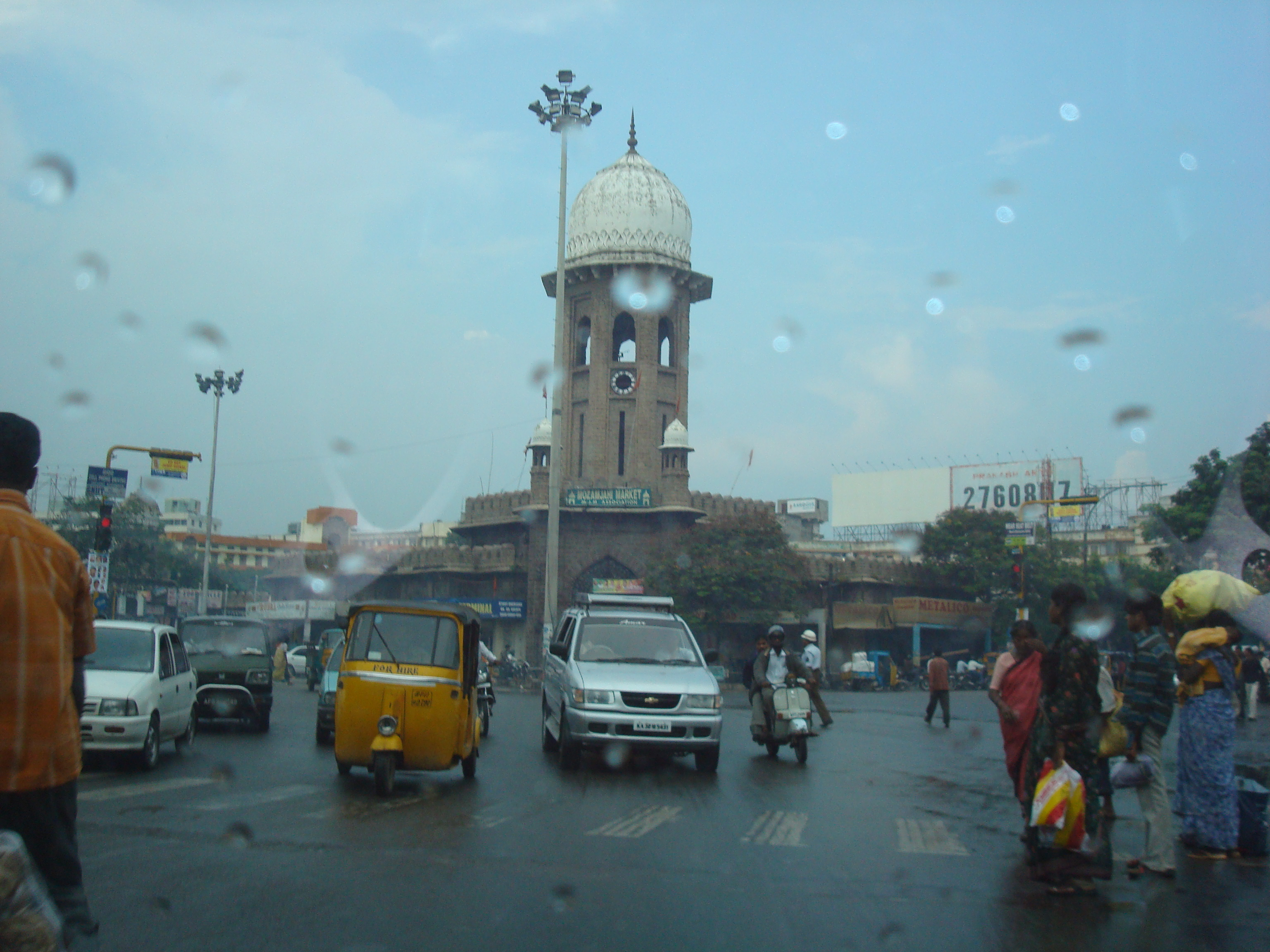 Mozzam Jahi Market, Hyderabad.